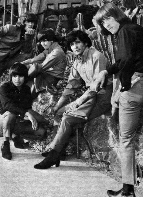 Photo of the music group Sir Douglas Quintet.